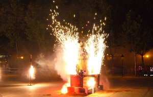 Burning the barrel of the 2007 San Mateo festivals in Logroño, La Rioja, Spain.